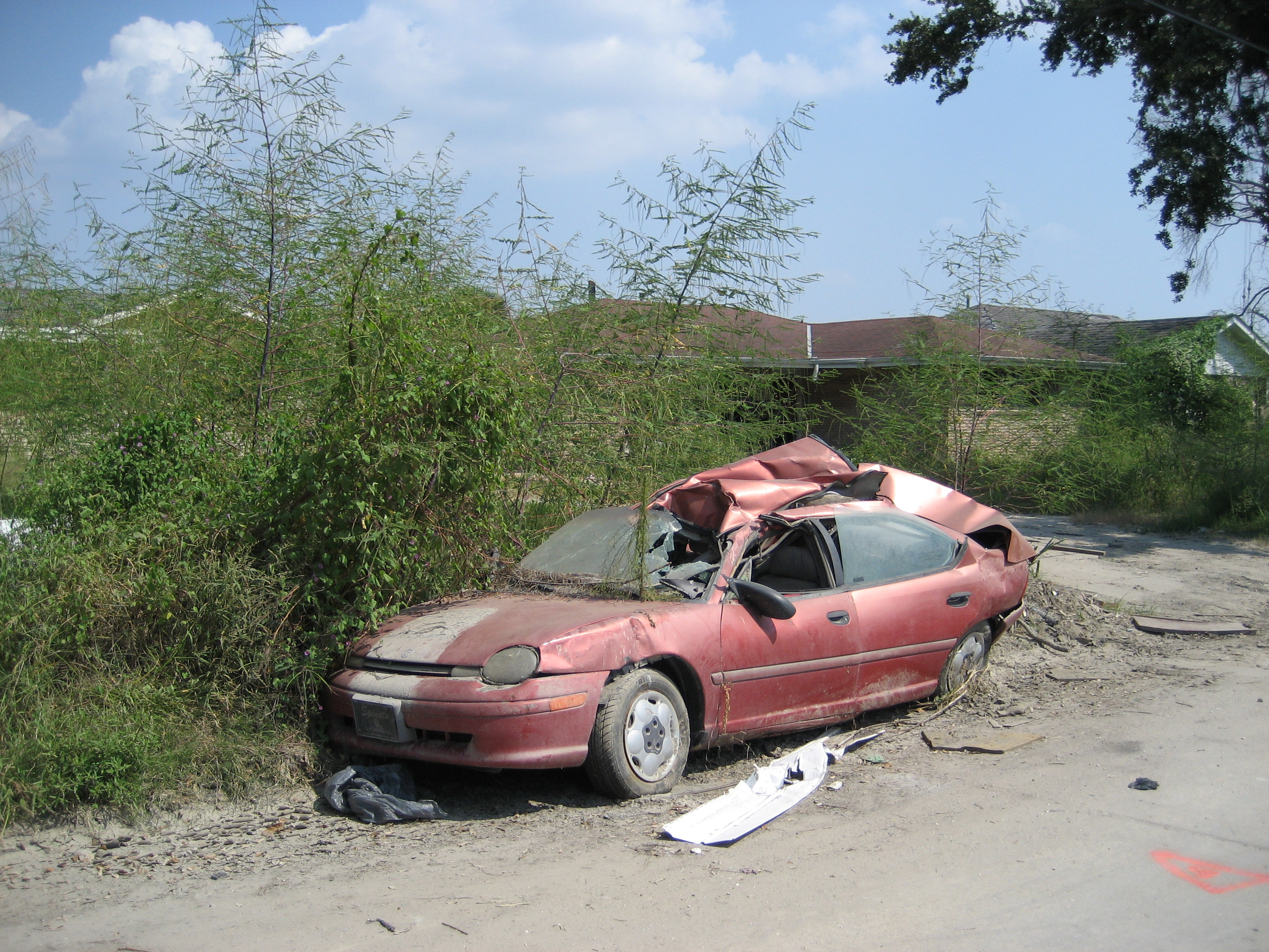 New Orleans just over a year after the Hurricane Katrina levee failure disaster. Formerly flooded residential neighborhood in Filmore area near the upper breach of the London Avenue Canal. Smashed Dodge Neon.